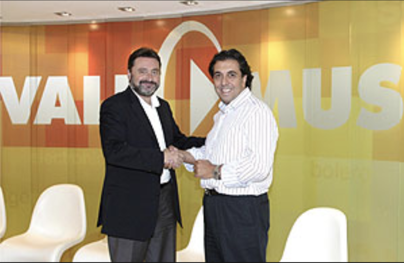 Ricardo Campoy and Jesús López, following the acquisition of Vale Music by Universal Music